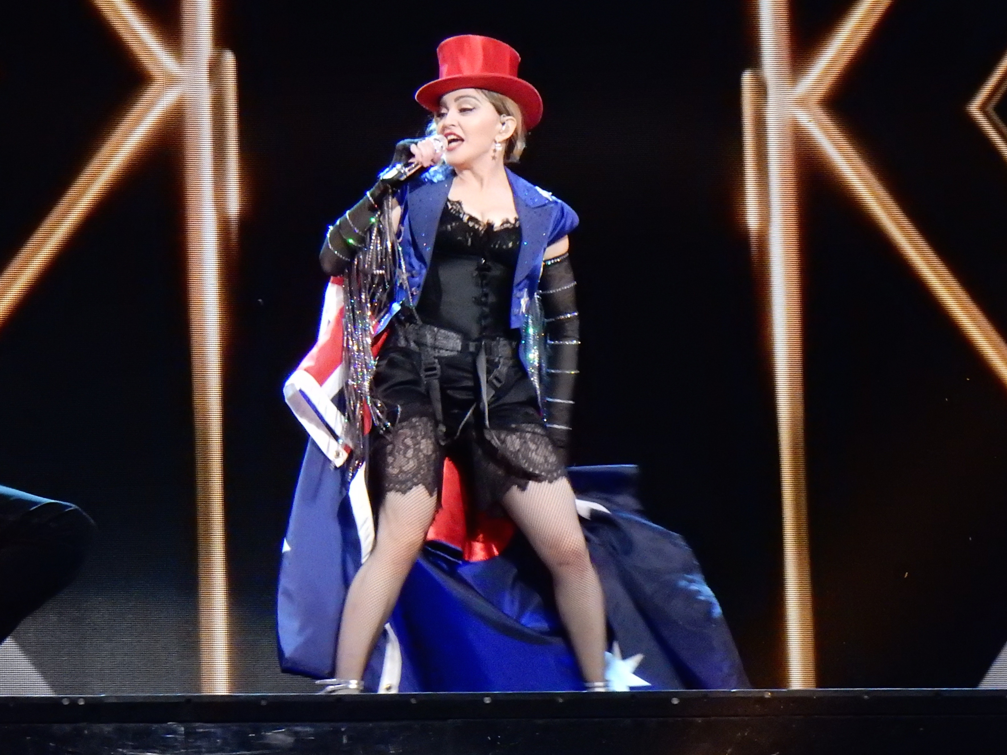 Rebel Heart Tour 2016 - Sydney 1